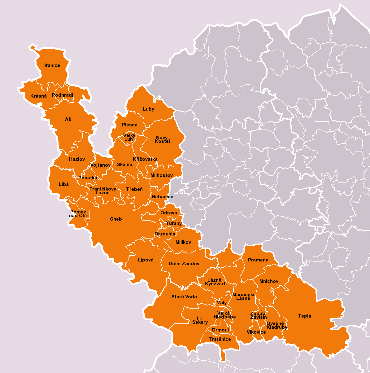 Municipalities of Cheb District as of January 1, 2010 (40 municipalities in total). White lines of variable thickness show boundaries of municipalities, administrative areas, districts, regions and nations.